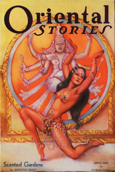 Oriental Stories, Spring 1932